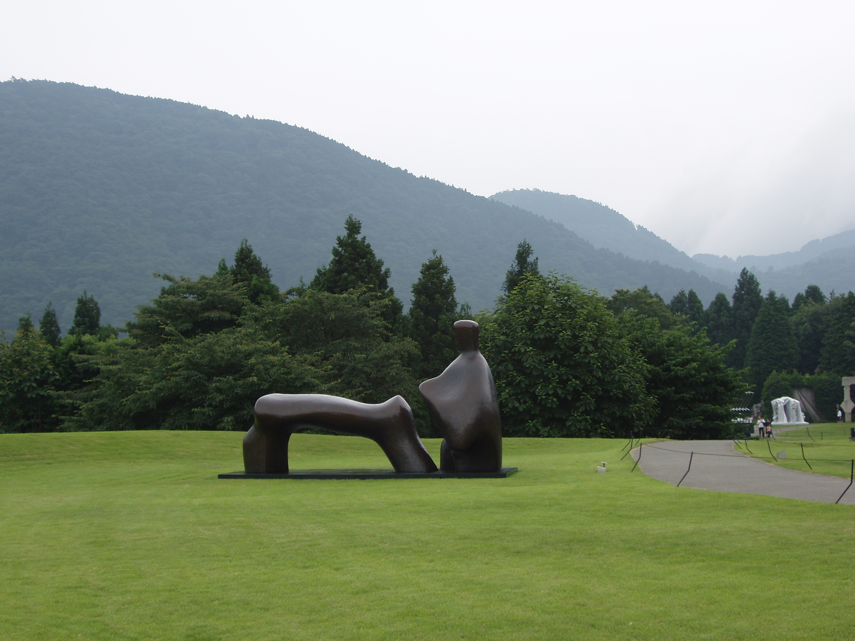 The Hakone Open-Air Museum